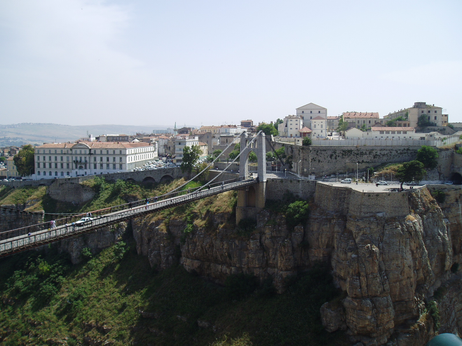 Sidi M'Cid bridge in Constantine, Algeria